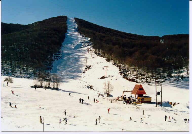 Lift Viglas Florinas,Greece.